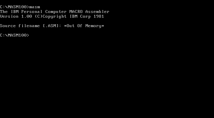 An integer signedness bug in the stack setup code emitted by the Pascal compiler prevented Microsoft / IBM MACRO Assembler Version 1.00 (MASM), a DOS program from 1981, and many other programs compiled with the same compiler, to run under some configurations with more than 512 KB of memory. for details.